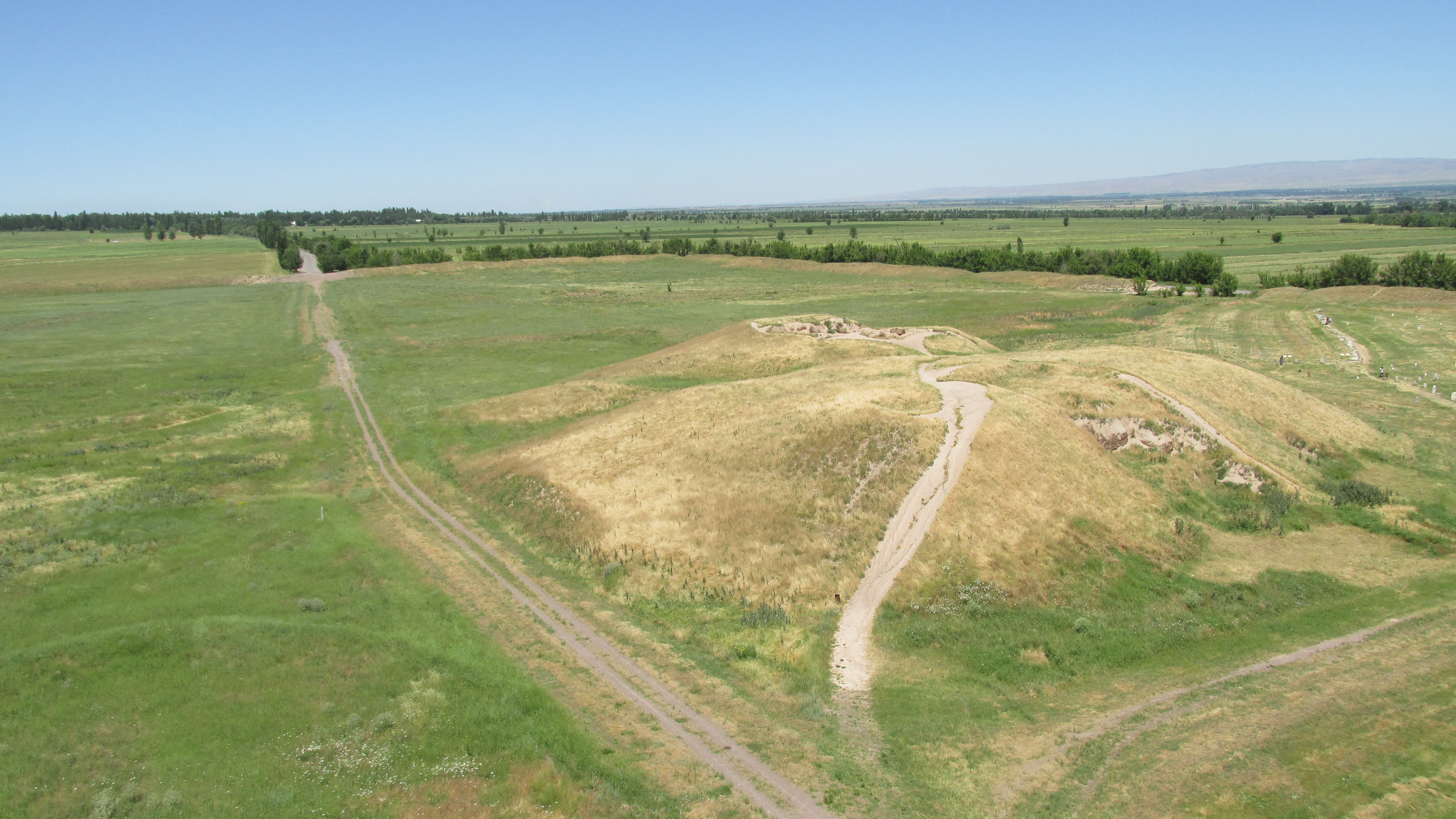 Ruins of Balasagun: central mound and city walls viewed from Burana tower.